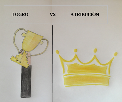 This photos represents one of the seven cultural dimensions, Achievement versus Ascription